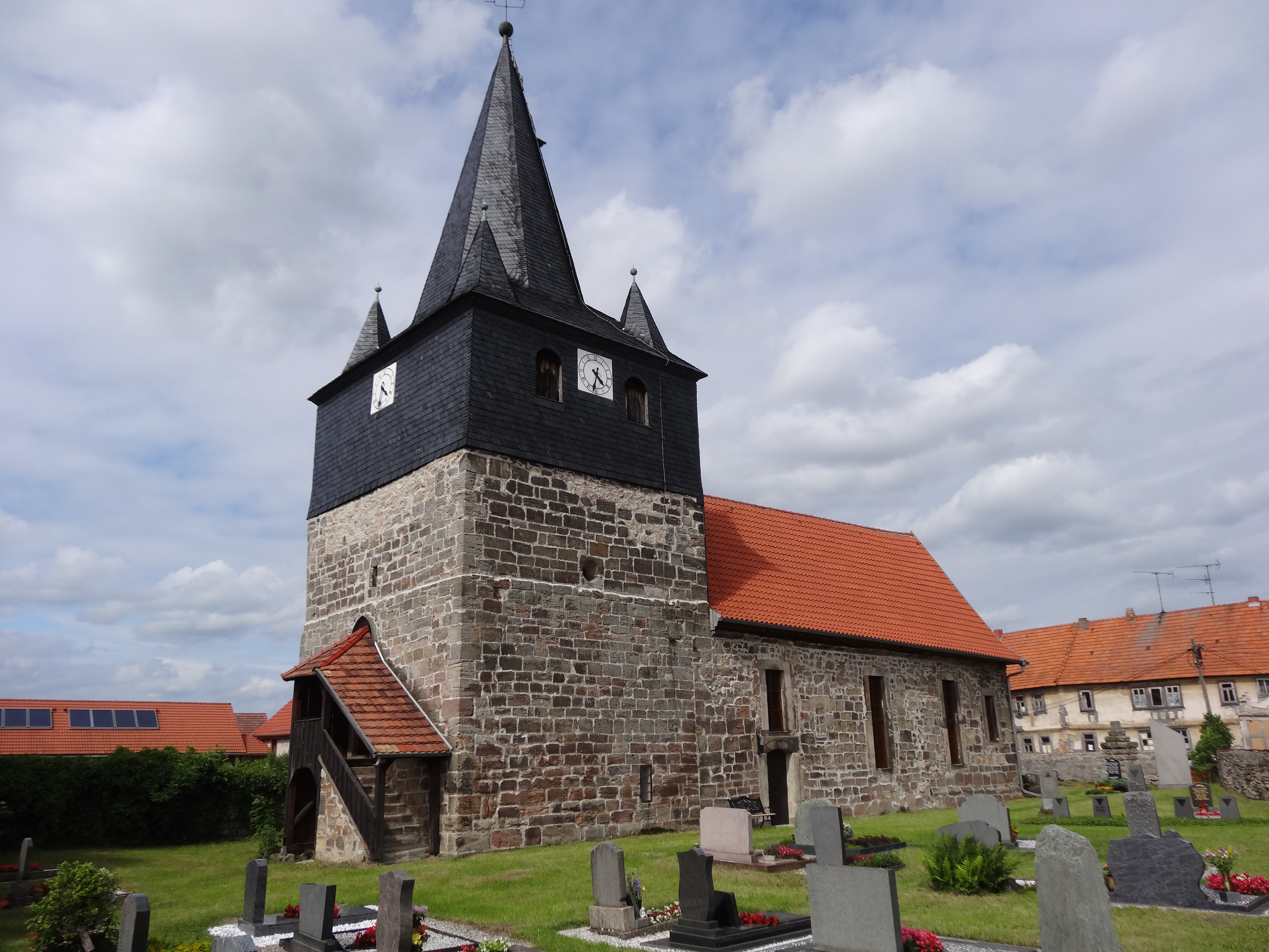 Church of Kleinliebringen, Thuringia, Germany